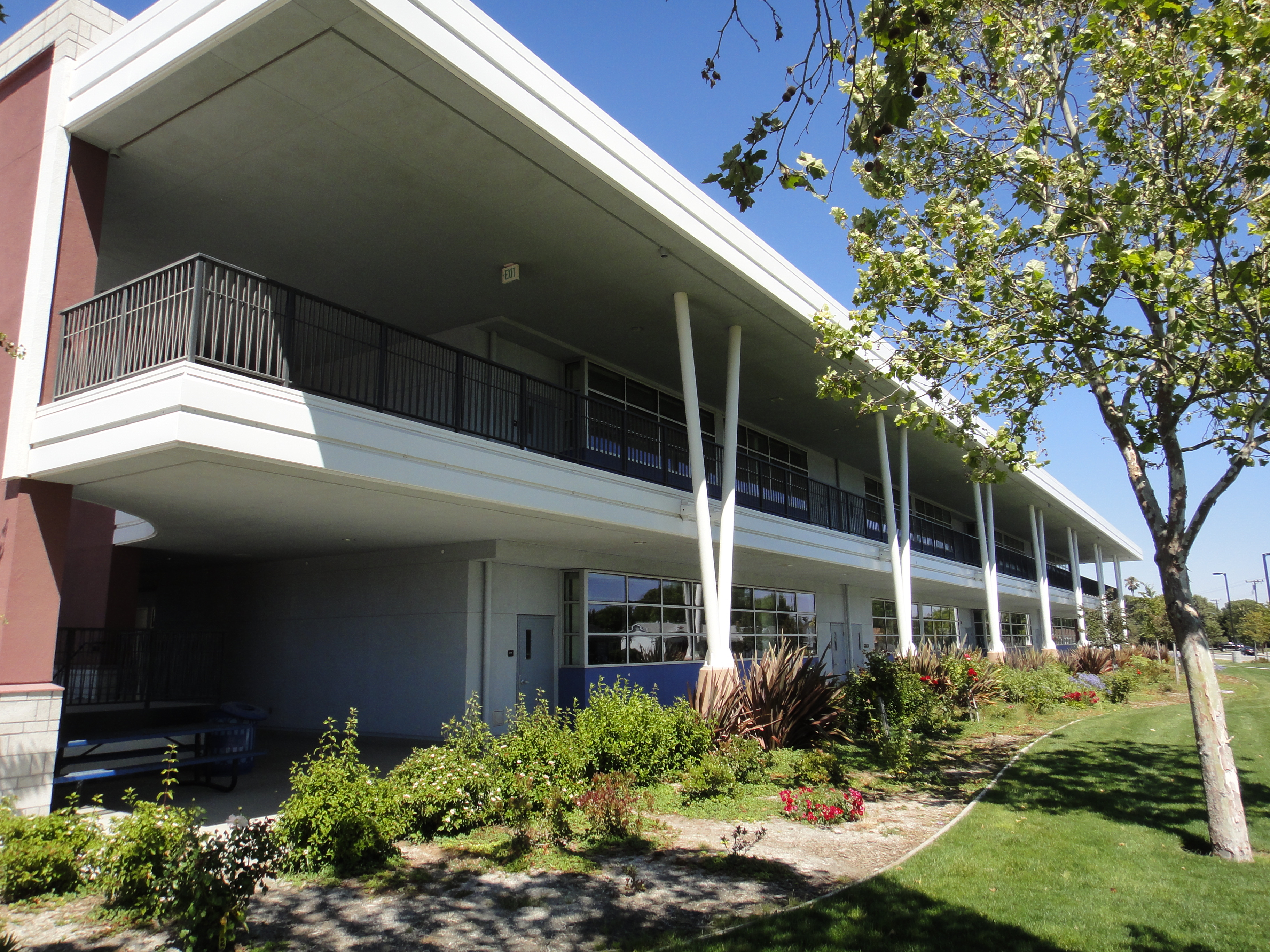 Dublin High School's Math and Science Building. Dublin, California. Part of Dublin High Schools $120M renewal project funded by Bond Measure 'C'. Dublin High School is part of the Dublin Unified School District.